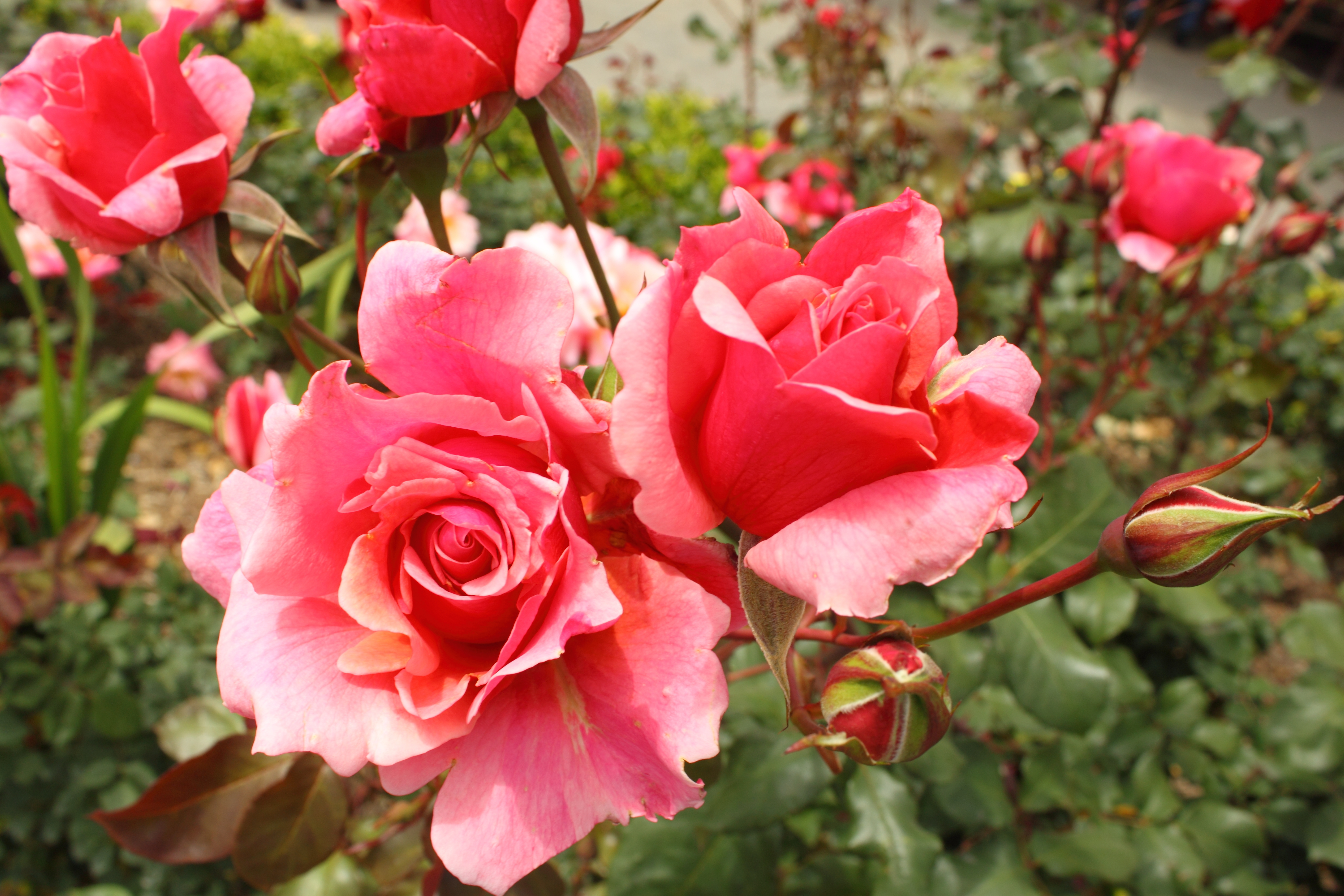 Rosa en 'Duet'